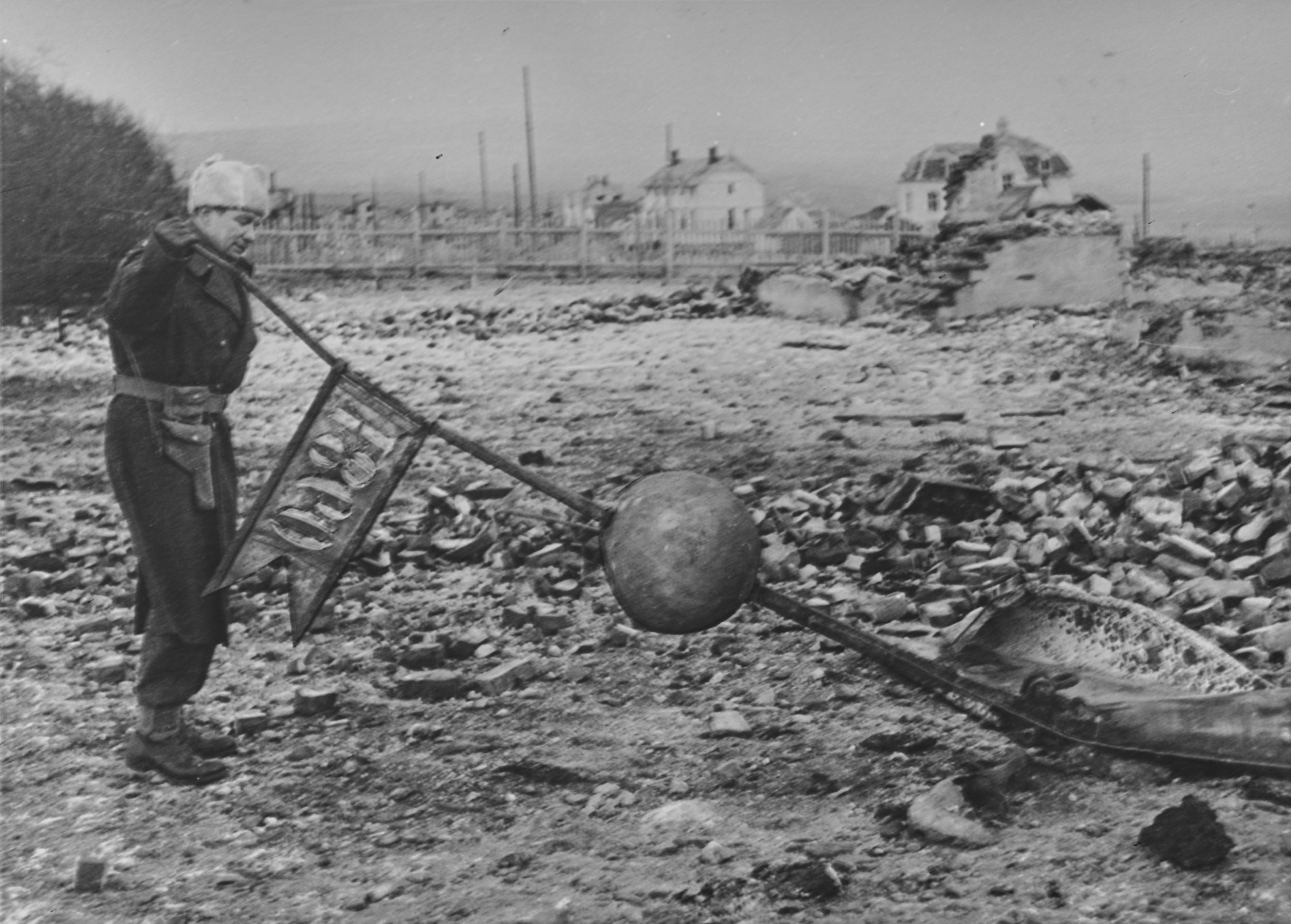 Photos from Flickr album "Evakueringen og frigjøringen av Finnmark" (The Evacuation and Liberation of Finnmark, 2015) by Riksarkivet (National Archives of Norway). Towards the end of World War II, with Operation Nordlicht, the Germans used the scorched earth tactic in Finnmark and northern Troms to halt the Red Army. As a consequence of this, few houses survived the war, and a large part of the population was forcefully evacuated further south (Tromsø was crowded), but many people avoided evacuation by hiding in caves and mountain huts and waited until the Germans were gone, then inspected their burned homes. There were 11,000 houses, 4,700 cow sheds, 106 schools, 27 churches, and 21 hospitals burned. There were 22,000 communications lines destroyed, roads were blown up, boats destroyed, animals killed, and 1,000 children separated from their parents. However, after taking the town of Kirkenes on 25 October 1944 (as the first town in Norway), the Red Army did not attempt further offensives in Norway. The town was handed over to Norway as the war ended. When war was over, more than 70,000 people were left homeless in Finnmark. The government imposed a temporary ban on residents returning to Finnmark because of the danger of landmines. The ban lasted until the summer of 1945 when evacuees were told that they could finally return home.